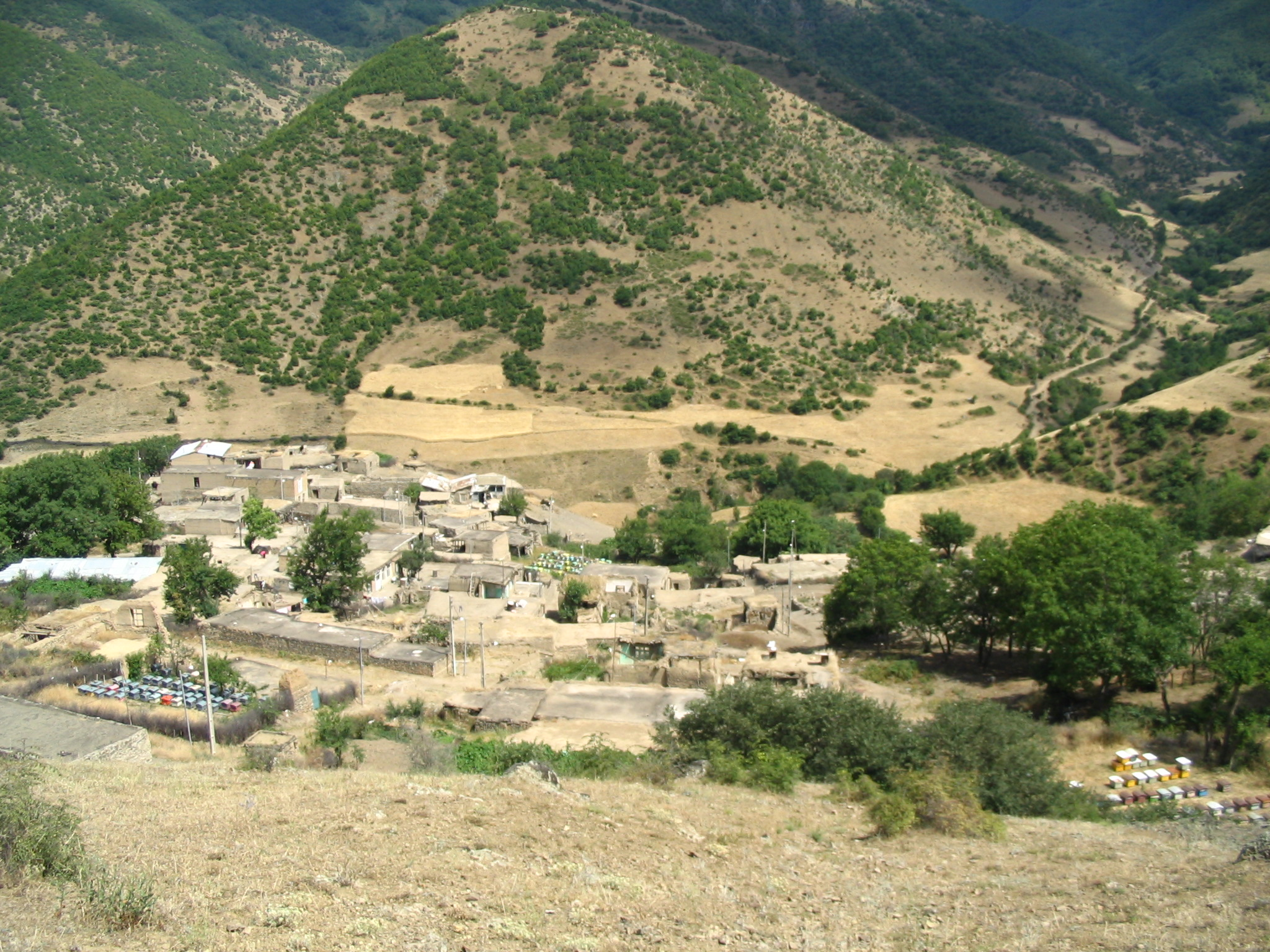 The photo is a view of Abbasabad village. It has also been published on Panoramio with the title "Scorched by drought "